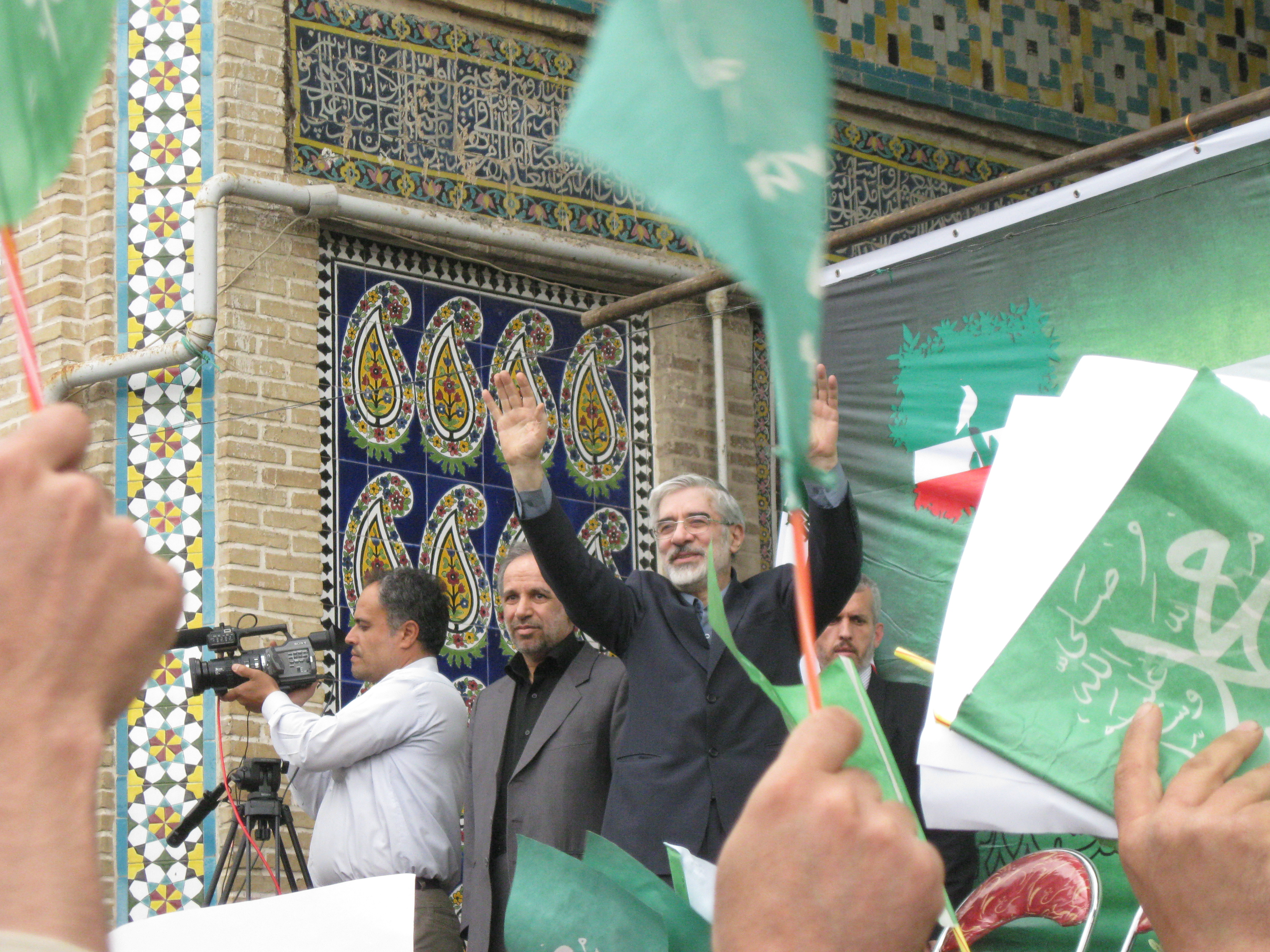 Mir-Hossein Mousavi iranian former prime minister in Zanjan